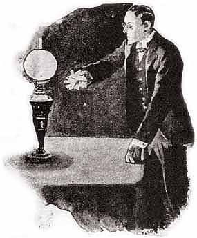 Illustration of the Sherlock Holmes short story The Five Orange Pips, which appeared in The Strand Magazine in November, 1891. Original caption was "SHOOK OUT FIVE LITTLE DRIED ORANGE PIPS."